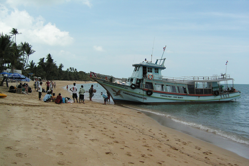 The original ferry to Koh Phangan is still in use at 2012, boarding at Maenam Beach, Koh Samui, Thailand